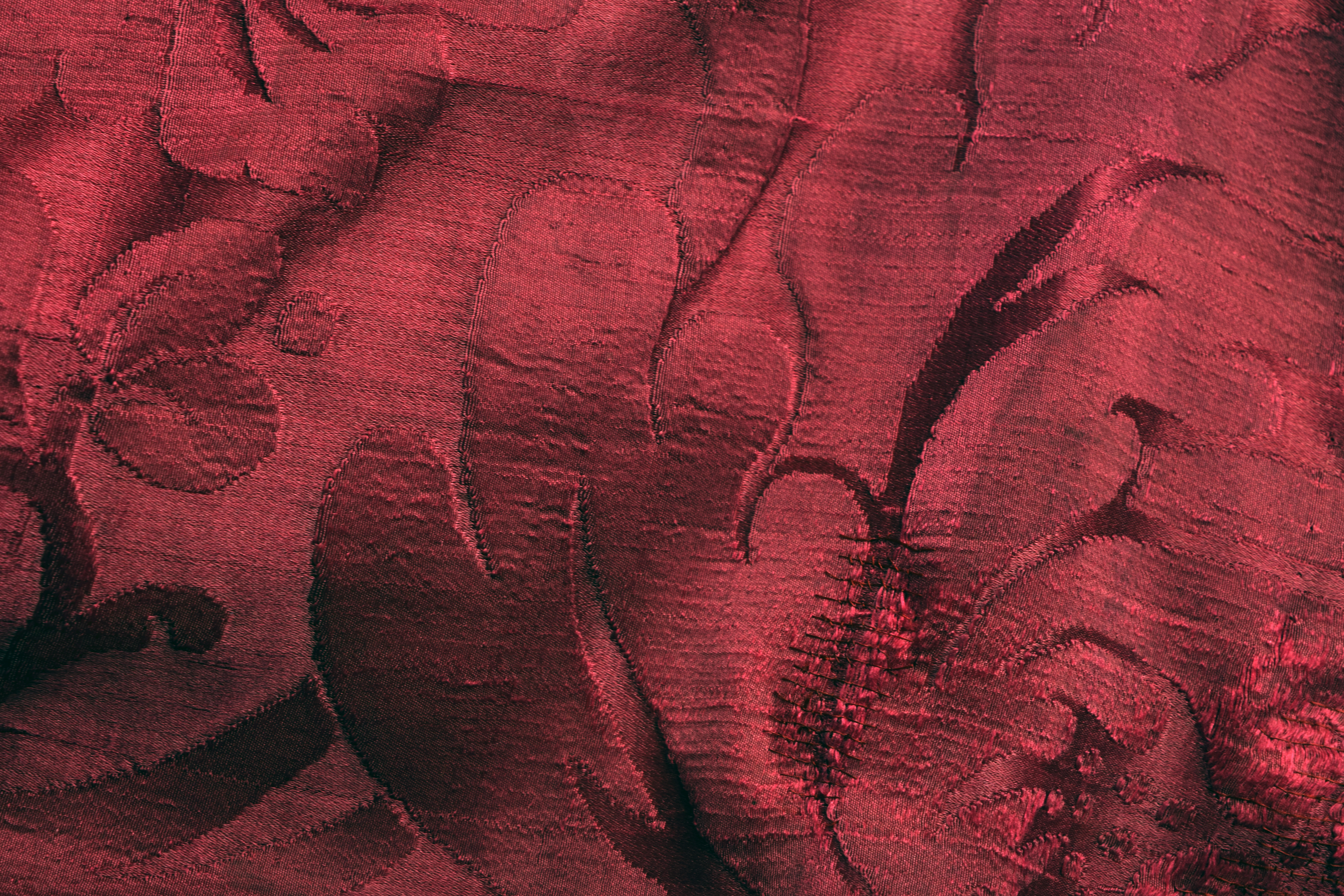 A farbic of traditional red skirt from Chochołow, Podhale region in Poland. A property of Muzeum Tatrzańskie in Zakopane, Poland. Inv. no: E/1991/MT. Purchased in 1887.